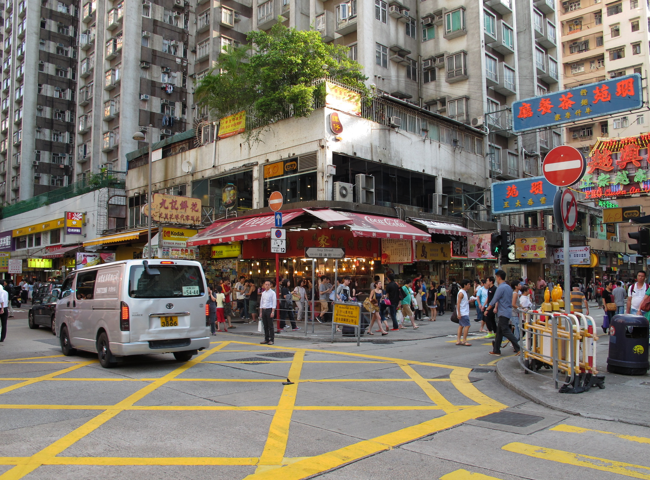 Soy Street 豉油街與花園街交界